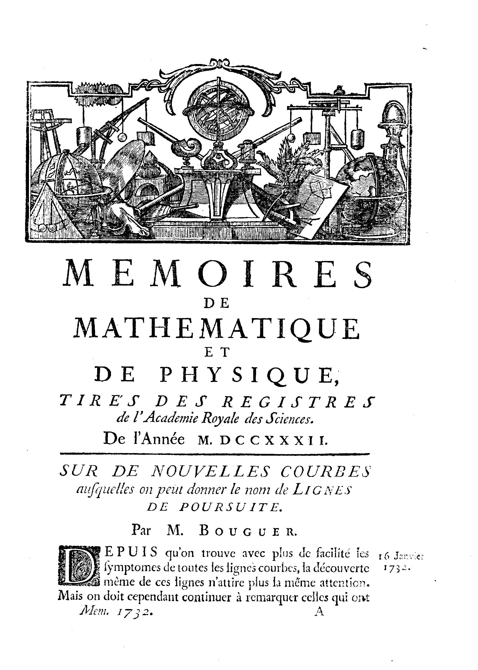 First page of Pierre Bourguer's article of 1732, studying pursuit curves